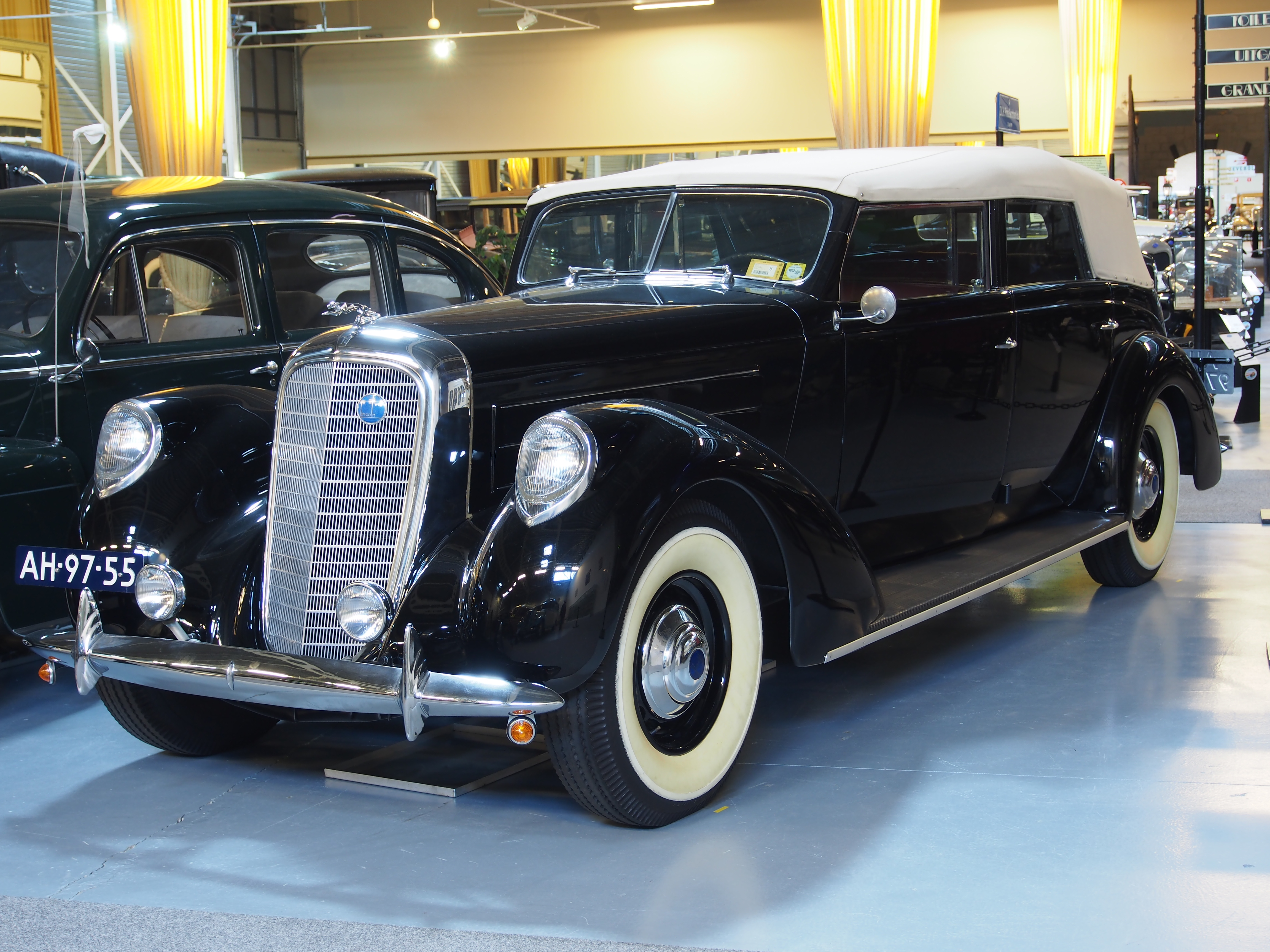 Photographed in the den Hartogh Ford museum. 1937 Lincoln Model K LeBaron 5-passenger Convertible Sedan with partition, Style #363A